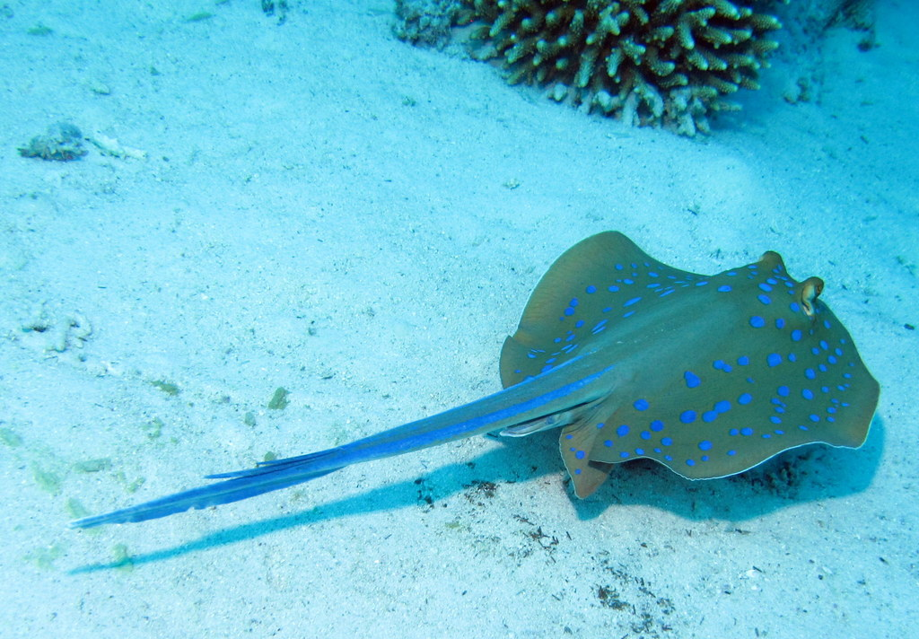 Bluespotted Ribbontail Ray, Taeniura lymma at Sataya Reef, Red Sea, Egypt #SCUBA